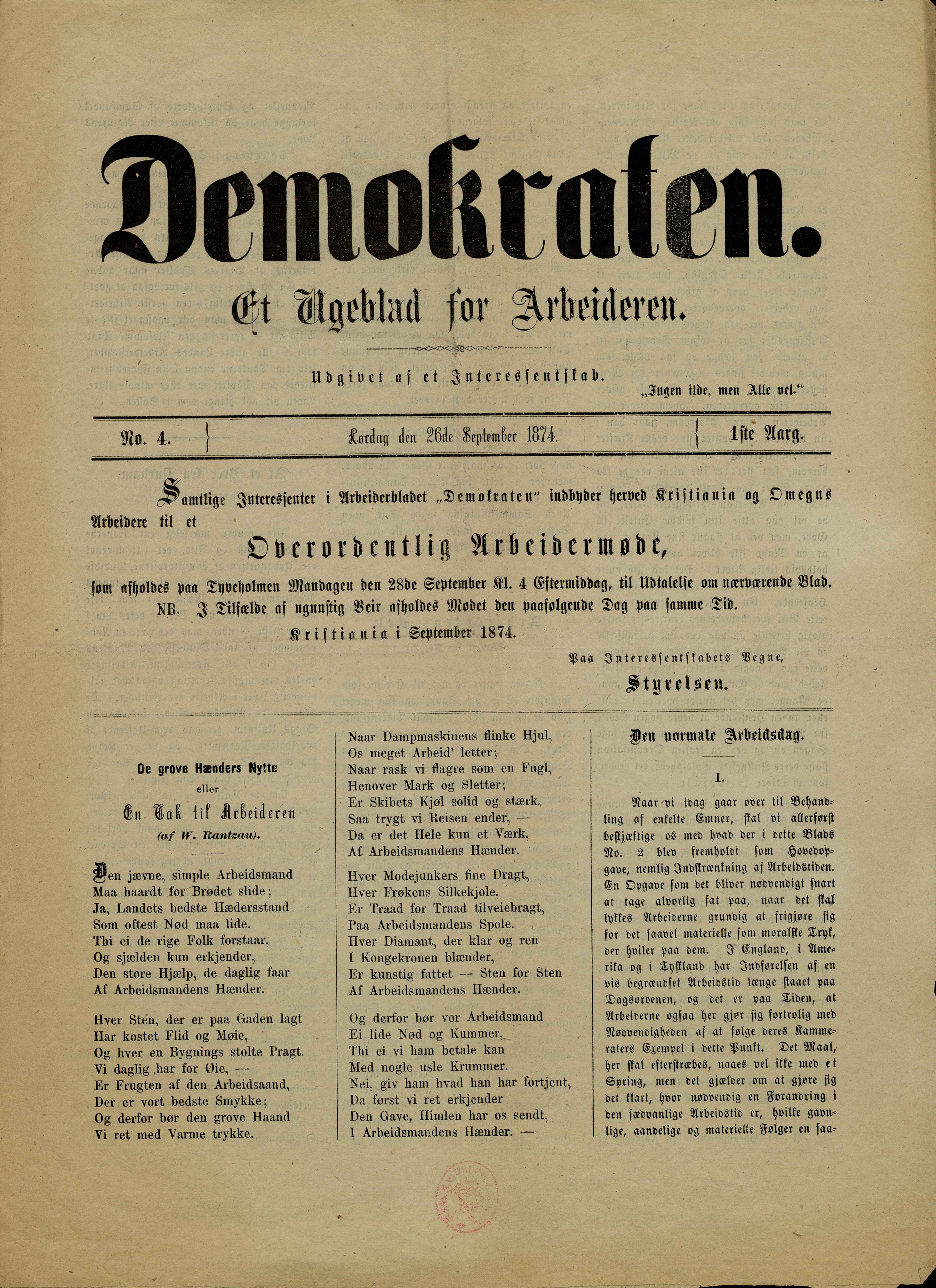 Front page of the Norwegian Socialist weekly magazine/newspaper Demokraten (=the democrat), published only in 1874, apparently